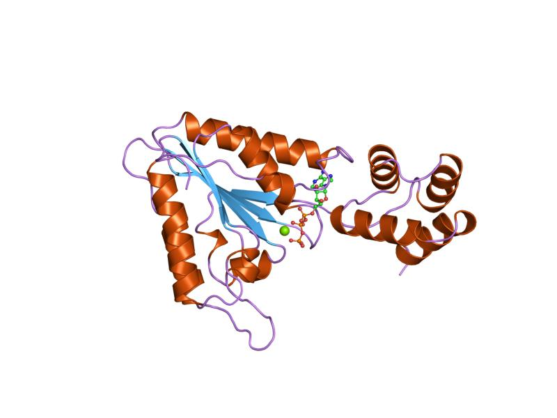 Cartoon representation of the molecular structure of protein registered with 1nsf code.